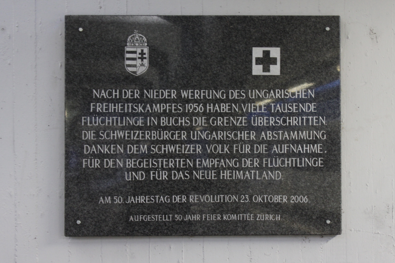 Memorial plaque to the Hungarian refugees at Buchs SG train station.